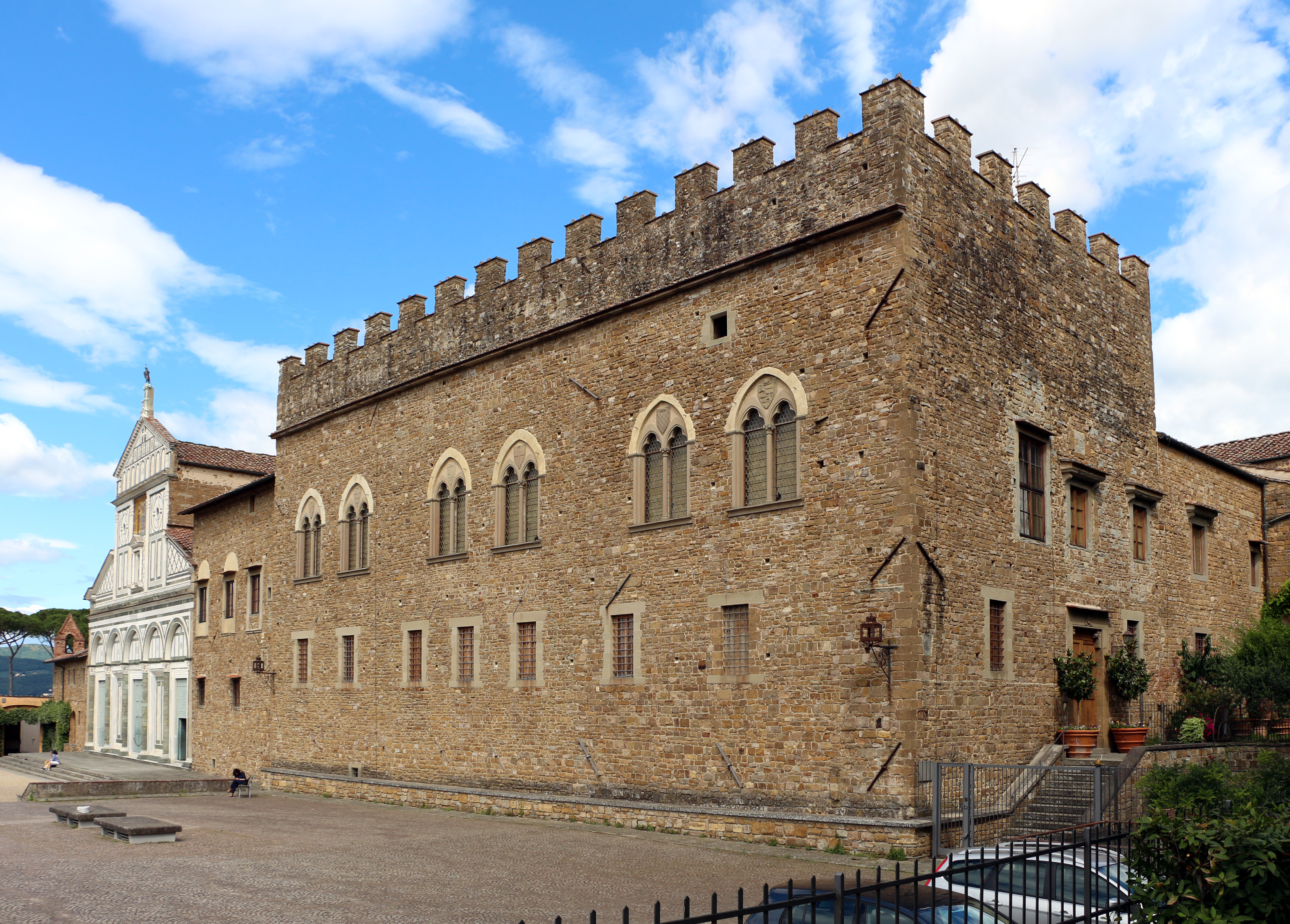 Porte Sante cemetery